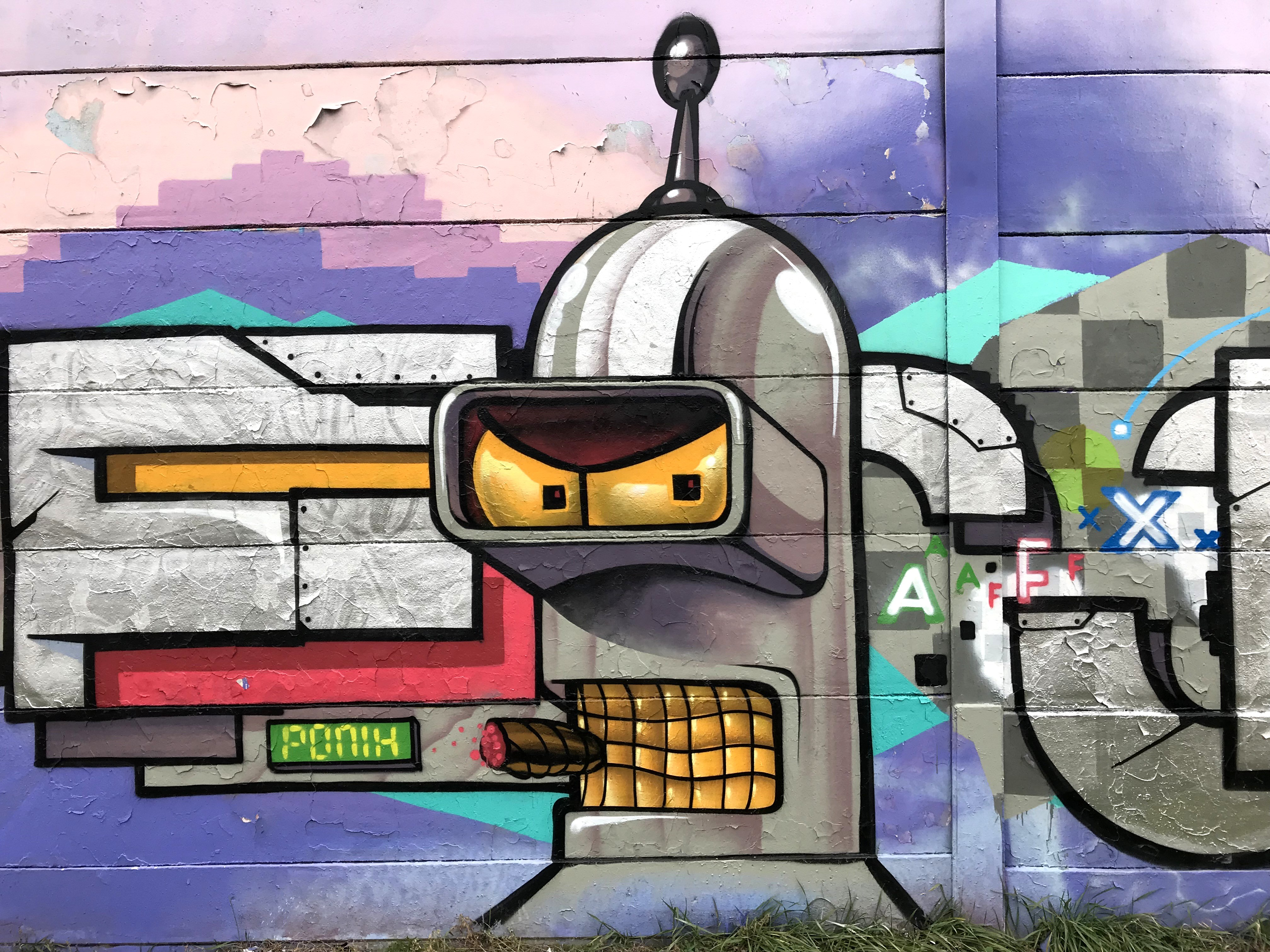 Bender's (Futurama character) graffiti in Budapest, Pestszentlőrinc